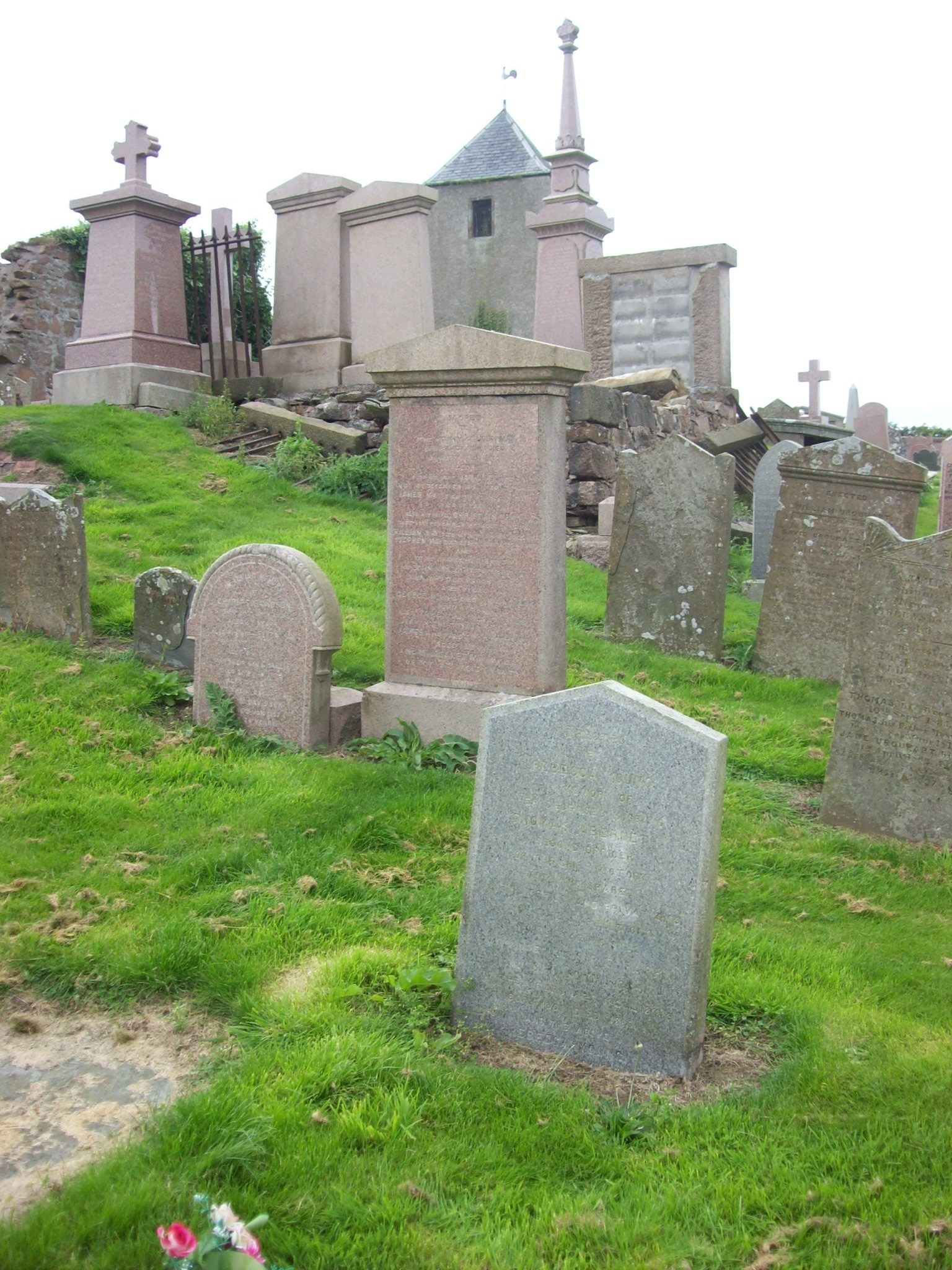 Thomas Abernethy grave in Peterhead Old Kirkyard Inscription: Erected By Rebecca Young In memory of Her deceased husband Thomas Abernethy, second officer in the ship Victory and who shared in the perils and privations of the expeditions to the Arctic Seas commanded by Sir E. Parry and Sir John Ross in the years 1823, 1829—1833. Born 1803, died 1860. And the above Rebecca Young Who died 3rd Nov 1887 Age 83 Note: the date 1823 is mistaken.